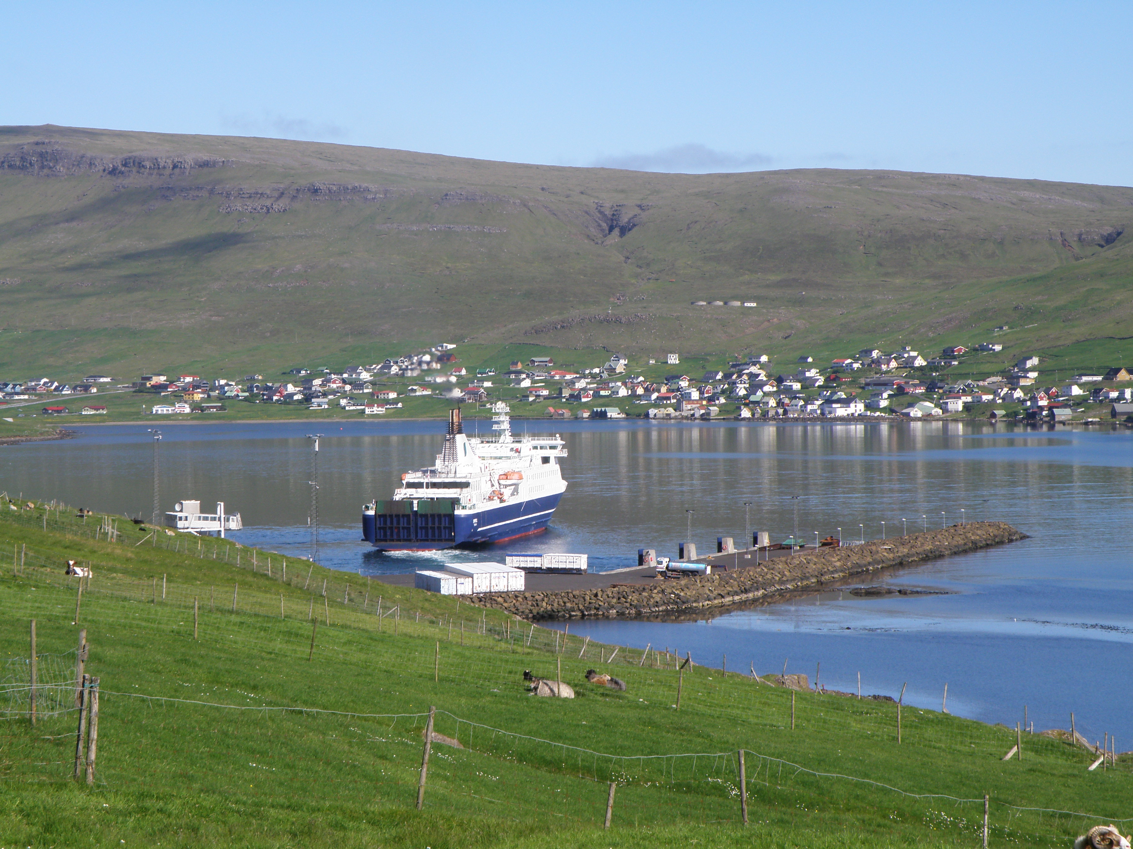 Smyril M/F is a Faroese ferry, which is on route between Tórshavn, the capital, and Suðuroy, the southernmost island. Smyril has 2-3 daily departures from Tórshavn and the same from Krambatangi ferry port on Suðuroy. This photo was taken from Øravíkarlíð near Krambatangi on the southern side of Trongisvágsfjørður. The village at the bottom of the fjord is Trongisvágur. A part of Tvøroyri is visible, the two villages have grown together. Smyril was built in 2005. There have been other ferries with the same name. The first ferries by that name had a different spelling: Smiril. The pronunciation is the same though. This ferry is much larger than the prior Suduroy ferry. The ferry can take up to 900 people and 200 cars or 30 trailers. Føroyskt: Smyril M/F er føroyskt ferðamannaskip, sum siglir millum Tórshavn og Krambatanga í Suðuroynni 2-3 ferðir hvønn dag. Smyril varð bygdur í Spania í 2005. Áðrenn henda Smyril hava aðrir verið. Tann fyrsti Smyril kom uleið 1899, hann varð skrivaður við fyrr i Smiril. Nýggj ferjulega varð bygd á Krambatanga, tá nýggi Smyril kom. Áðrenn tað legði Smyril at á Drelnesi, sum er eitt sindur longri inni, men á somu síðu av Trongisvágsfirði sum Drelnes.